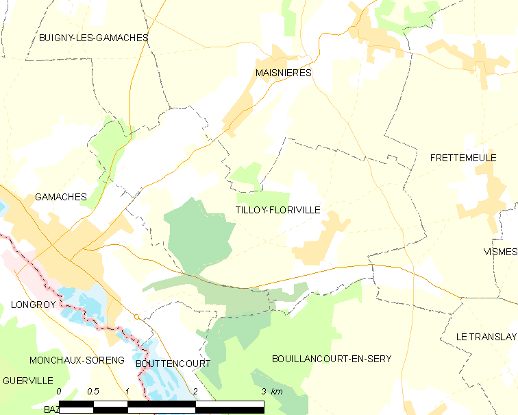 Map of French municipality Tilloy-Floriville